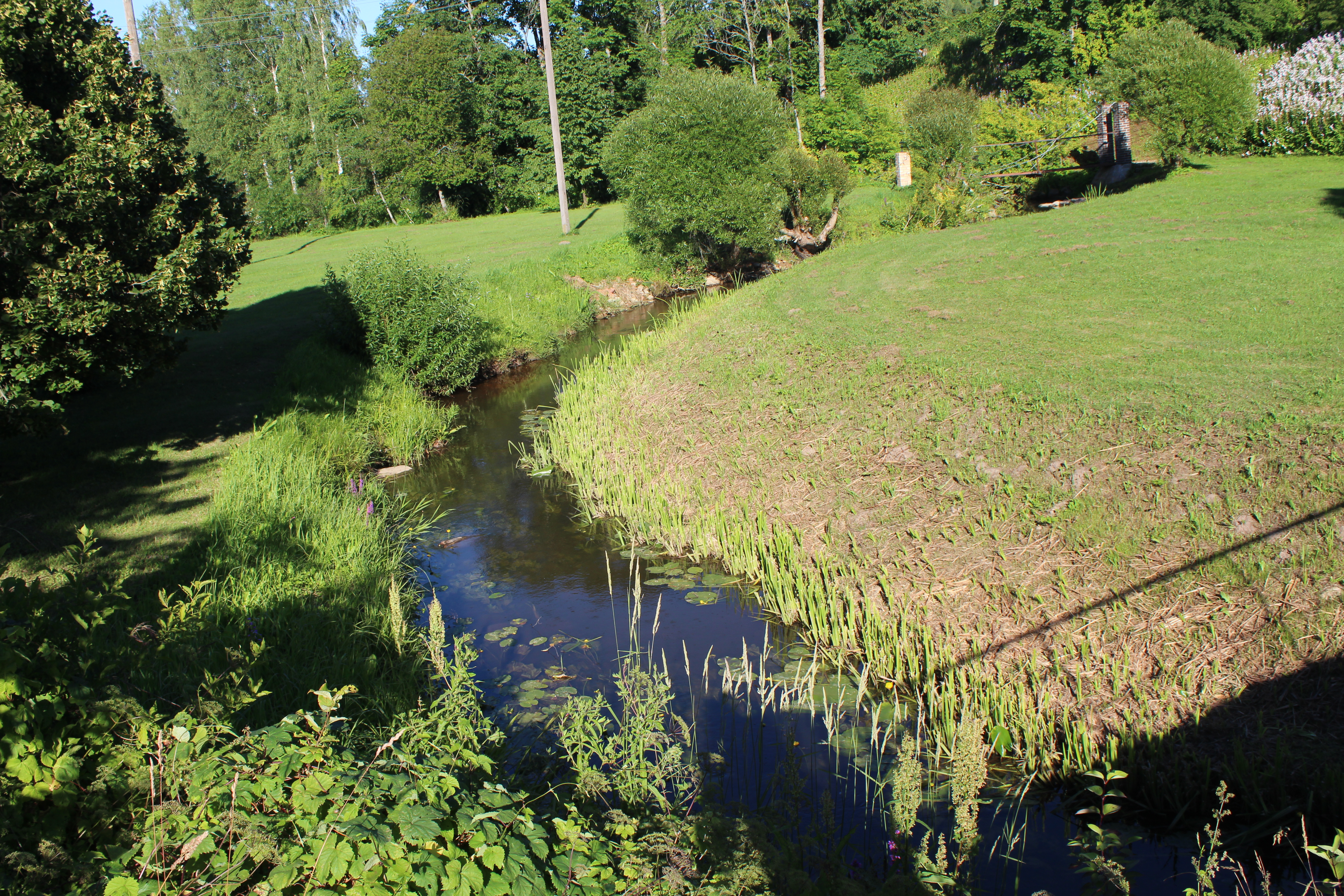 Arupīte river near Lauvas, Salacgrīva parish.